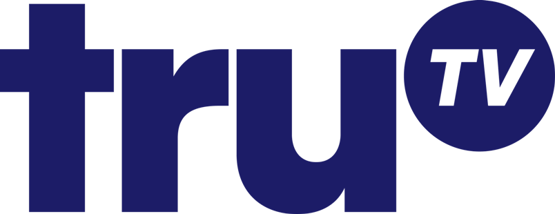 A renewed version of the truTV logo, used for the updated network branding overhaul since October 27, 2014.